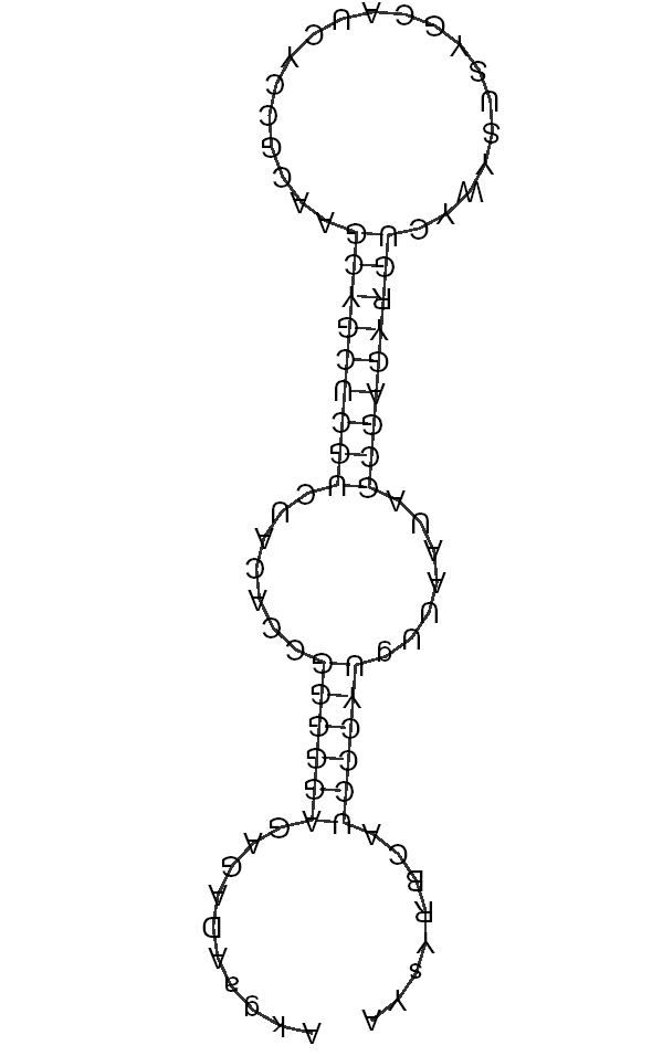 RNA secondary structure of TB10Cs1H1 generated by the WAR server( It is the consensus structure from 8 Trypansomatid species -Leishmania major, Leishmania infantum, Leishmania braziliensis, Trypanosoma brucei, Trypanosoma brucei gambiense, Trypanosoma cruzi, Trypanosoma congolense, Trypansoma vivax